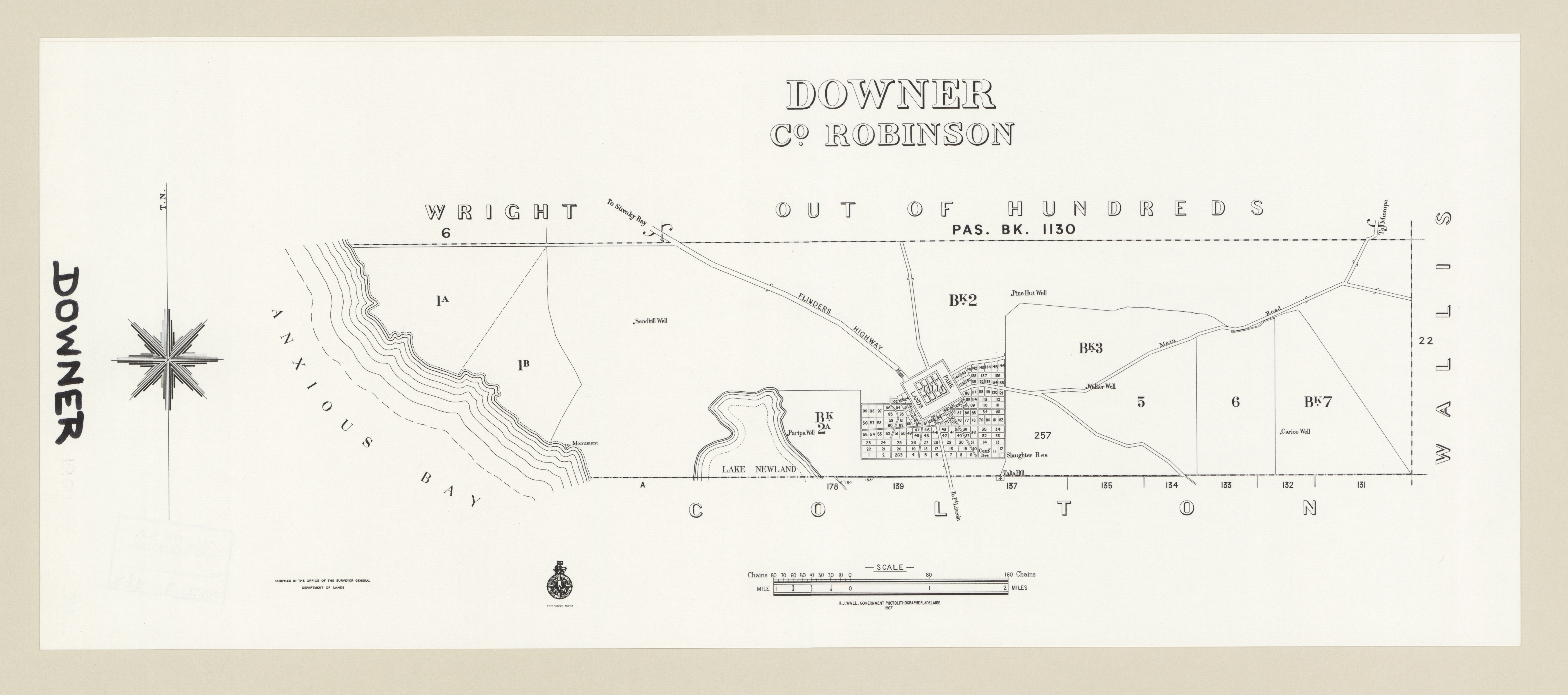 View additional information for this map Filename: map830bje63360_downer1967.jpg